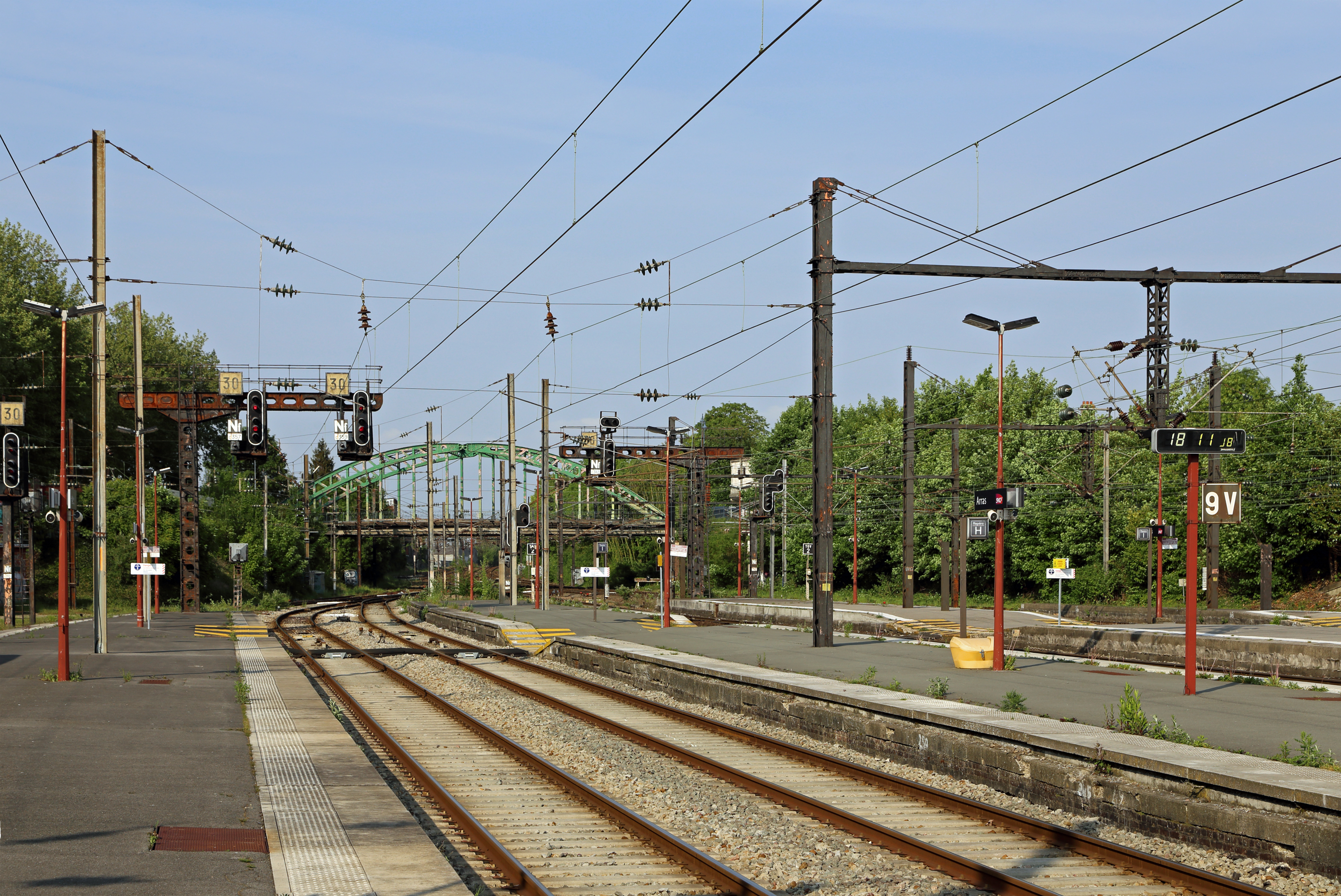 Arras (Pas-de-Calais department, France): railway station - tracks and platforms at the east side